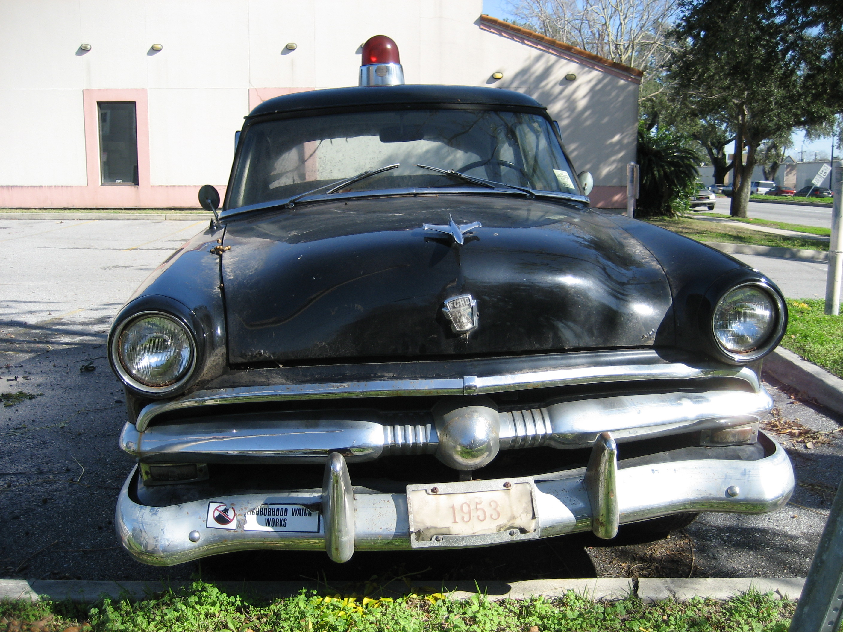 1953 Ford Mainline New Orleans police car (Mid City, on the narrow strip of high ground along City Park/Metarie Road that escaped major flooding after Katrina)